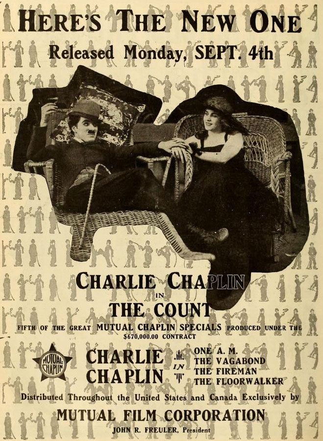 Advertisement in Moving Picture World for The Count (1916).